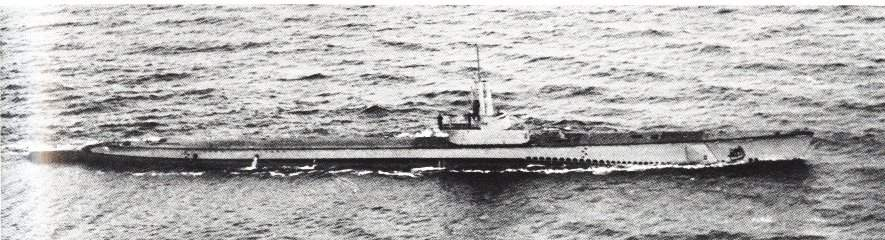 SS 315 en route circa 1945